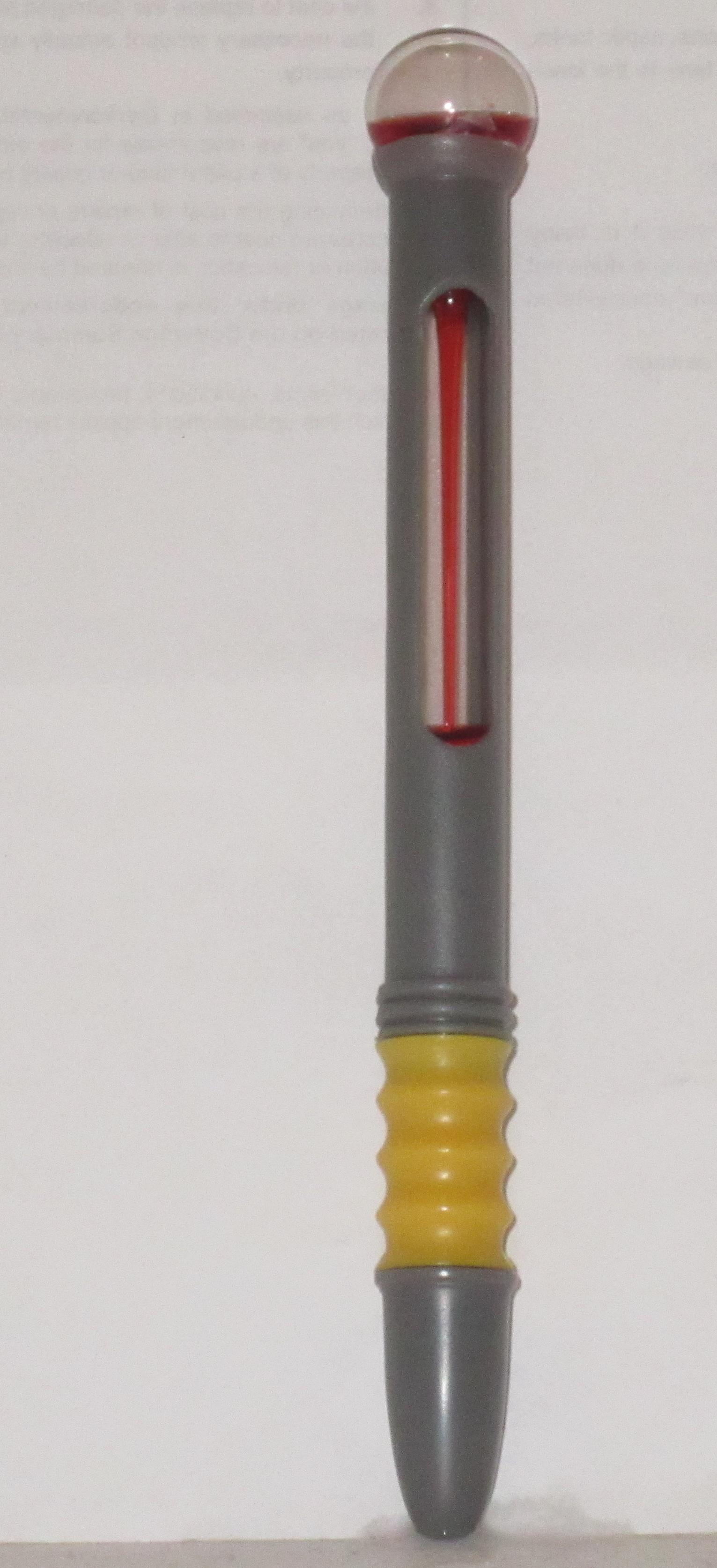 Hand boiler toy, built into a ballpoint pen. When the user holds the barrel of the pen, the warmth from the fingertips vaporizes some of the red liquid inside the tube, causing it to rise and bubble up into the top chamber as if the liquid was boiling. (If you have access to a larger hand boiler, please put an image up on Commons!)